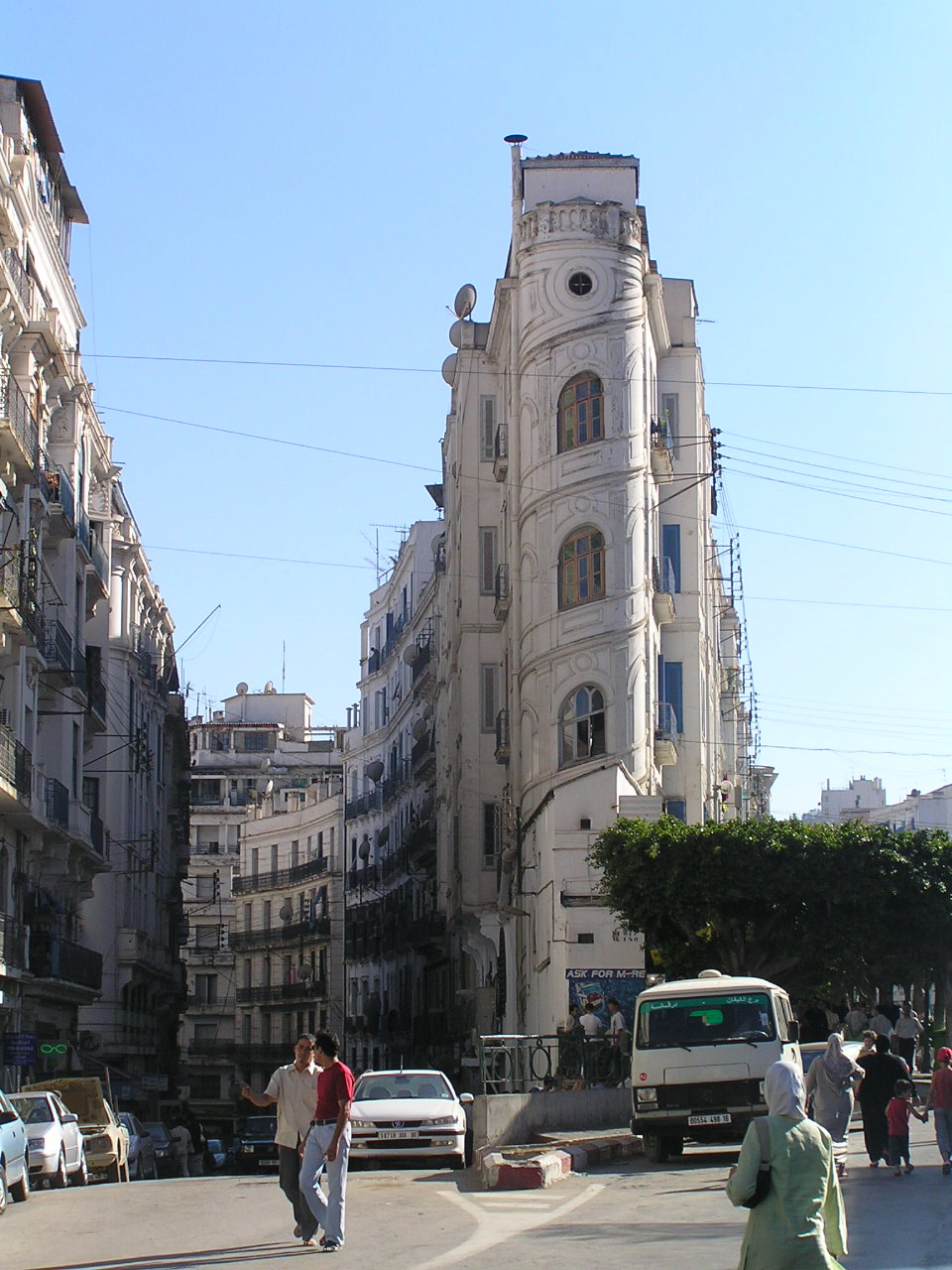 Colonial time buildings in Algiers, Algeria.